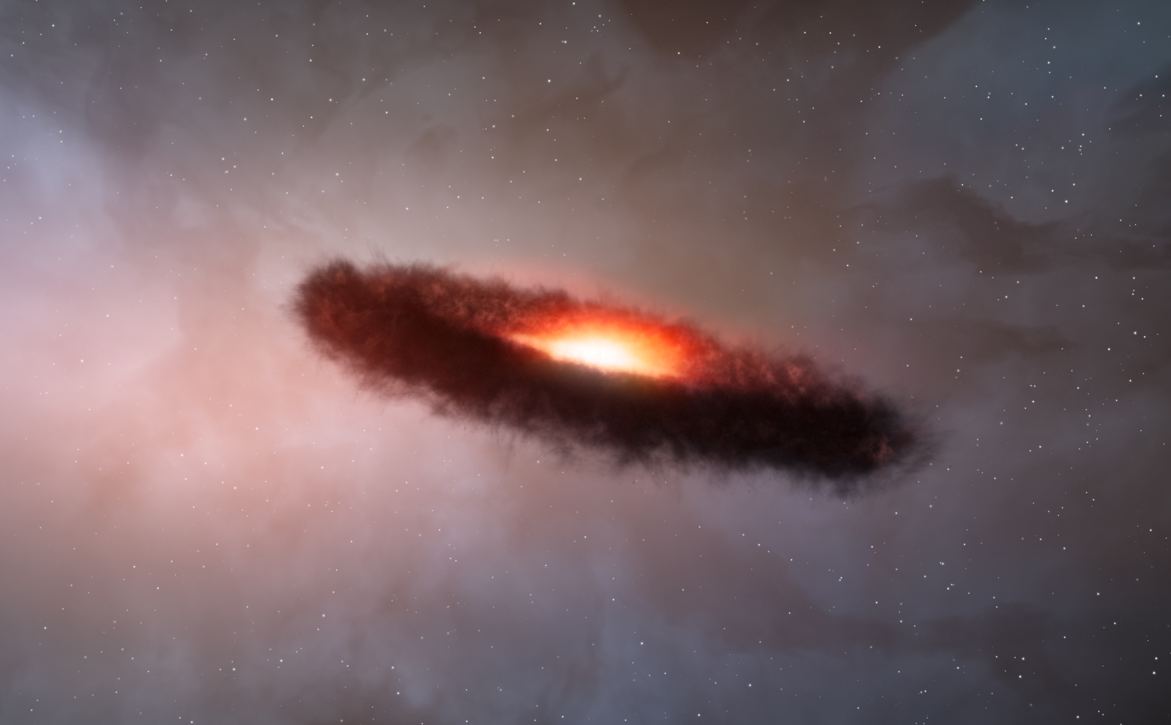 Rocky planets are thought to form through the random collision and sticking together of what are initially microscopic particles in the disc of material around a star. These tiny grains, known as cosmic dust, are similar to very fine soot or sand. Astronomers using the Atacama Large Millimeter/submillimeter Array (ALMA) have for the first time found that the outer region of a dusty disc encircling a brown dwarf — a star-like object, but one too small to shine brightly like a star — also contains millimetre-sized solid grains like those found in denser discs around newborn stars. The surprising finding challenges theories of how rocky, Earth-scale planets form, and suggests that rocky planets may be even more common in the Universe than expected.